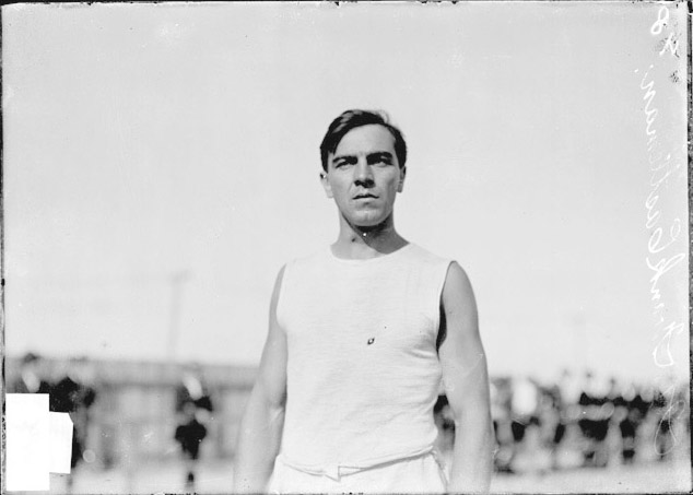 Athlete Frank Castleman Chicago Daily News negatives collection, SDN-002621. Courtesy of the Chicago Historical Society. Taken in 1904 (